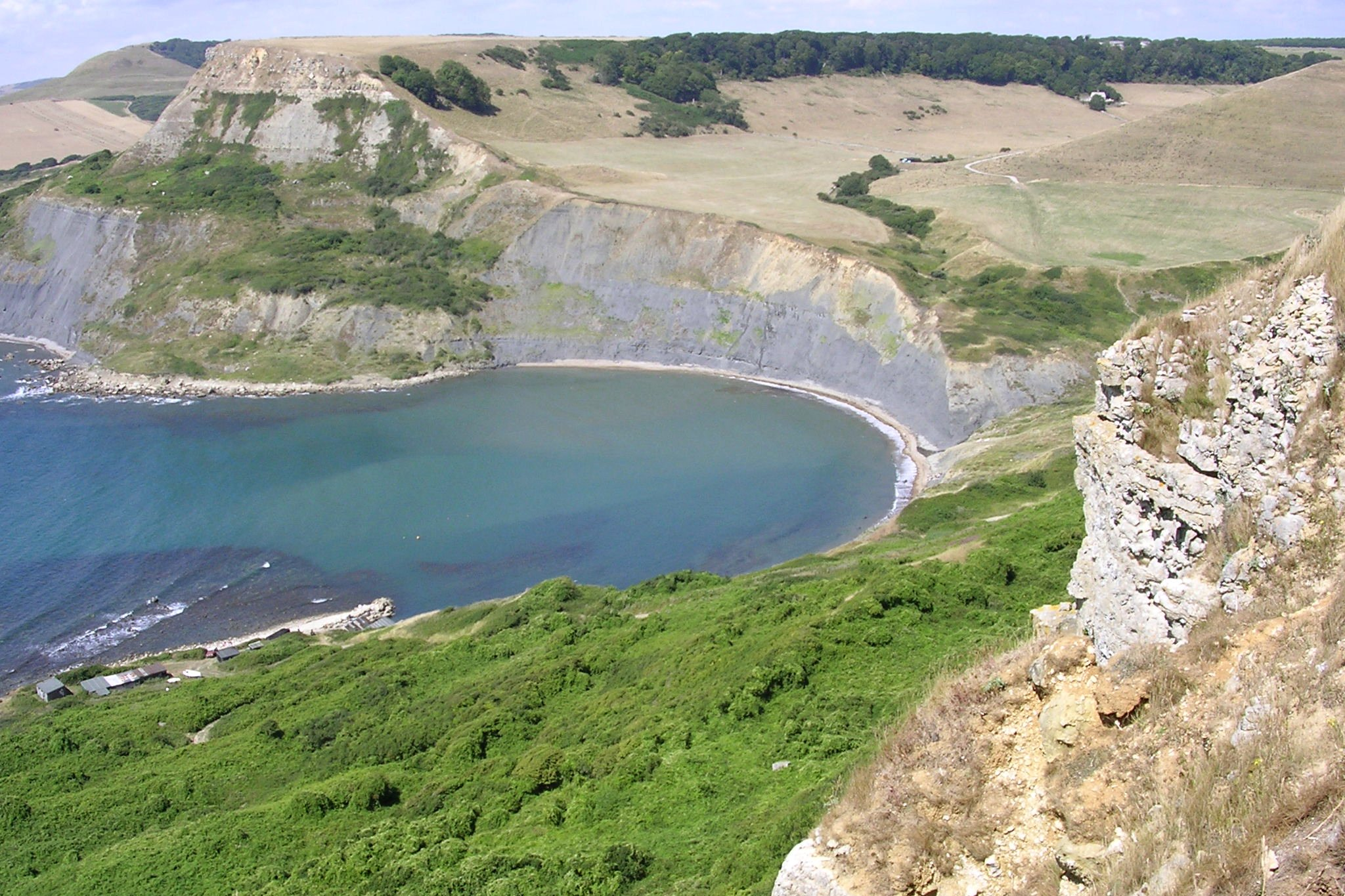 Chapman's Pool from Emmets Hill, with Houns-tout Cliff beyond